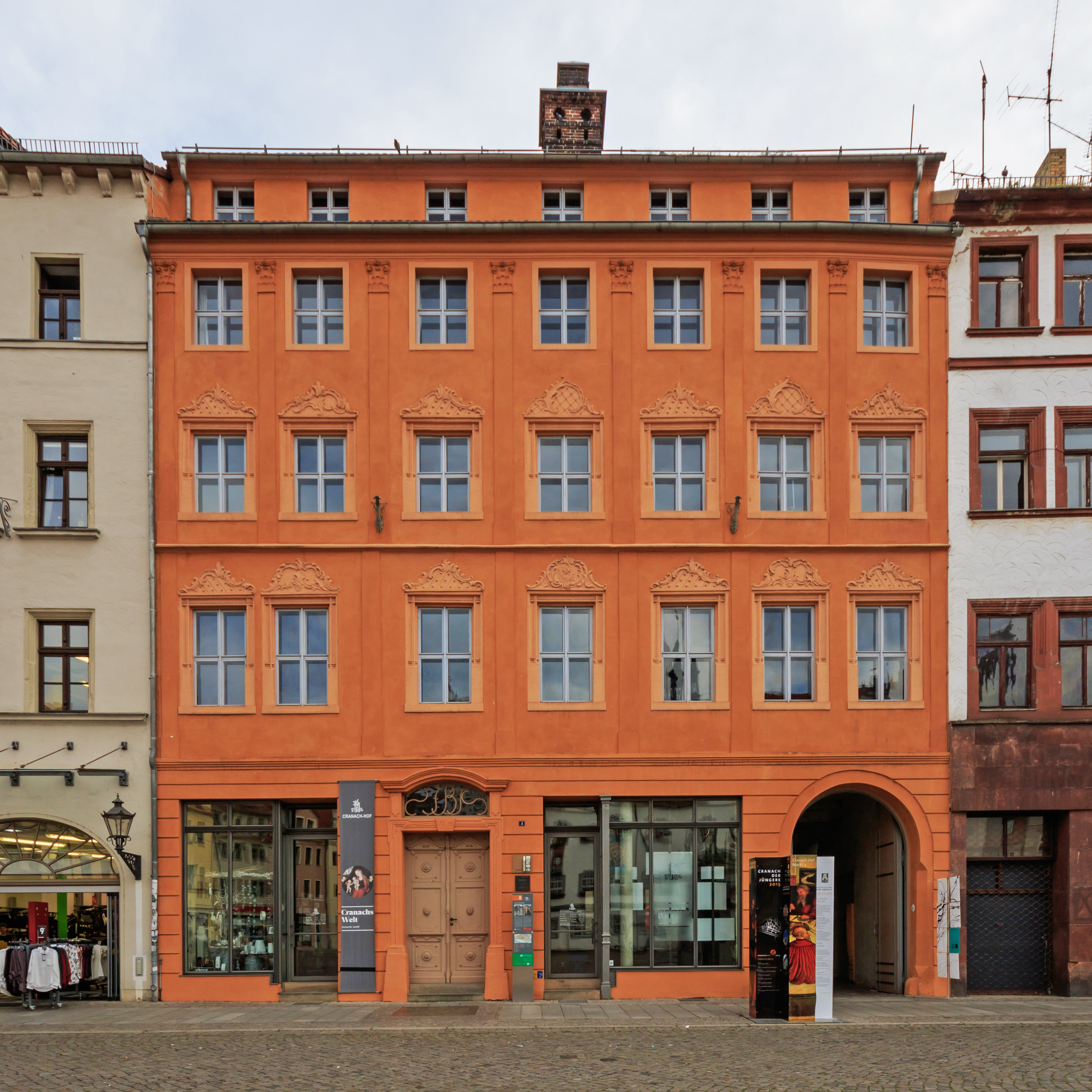 Cranach Yard Markt 3-4 in Wittenberg, Saxony-Anhalt, Germany